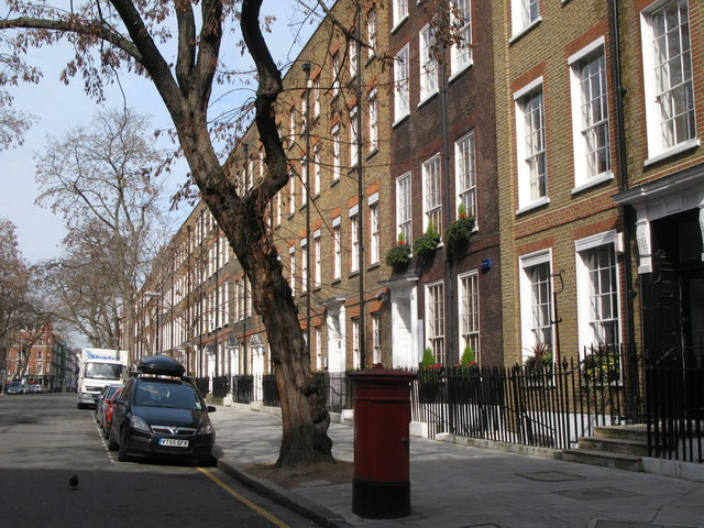 Bedford Row, WC1. Shows the location of 1274466.